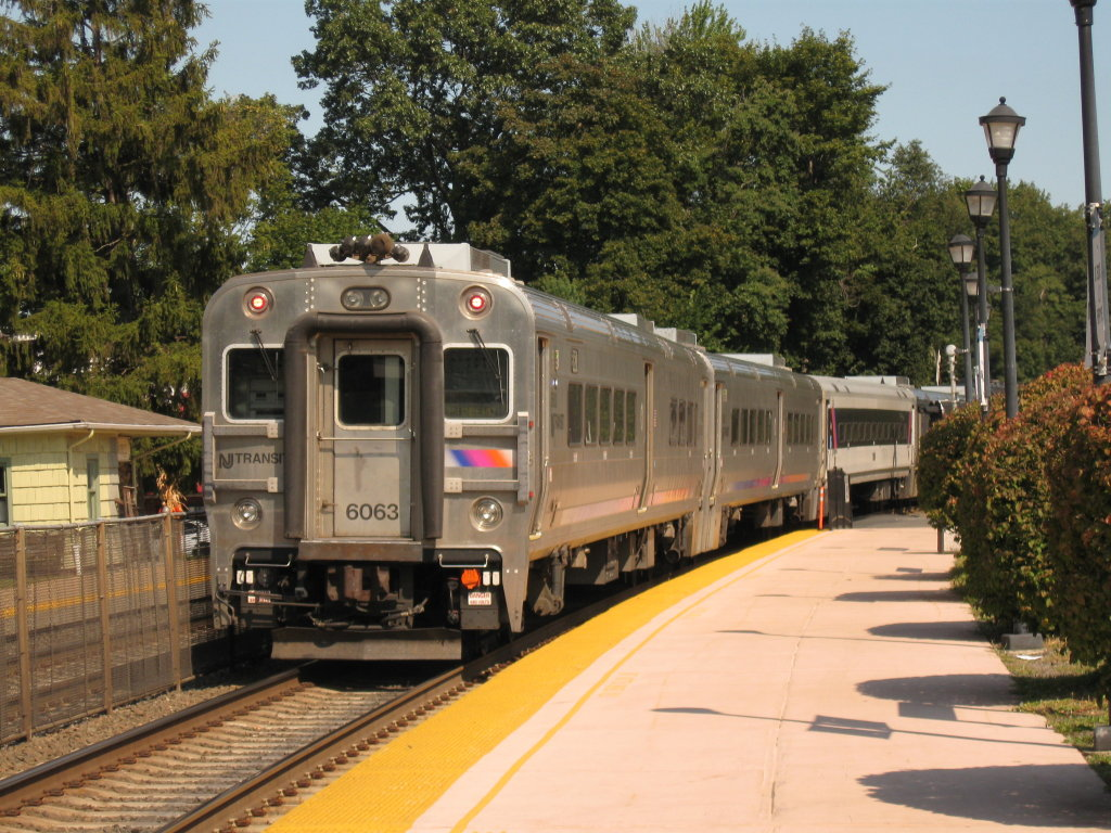 Bergen County Line train #1253 leaves the Glen Rock Station bound for Ridgewood, its next and last stop.